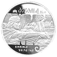 Coin of Ukraine